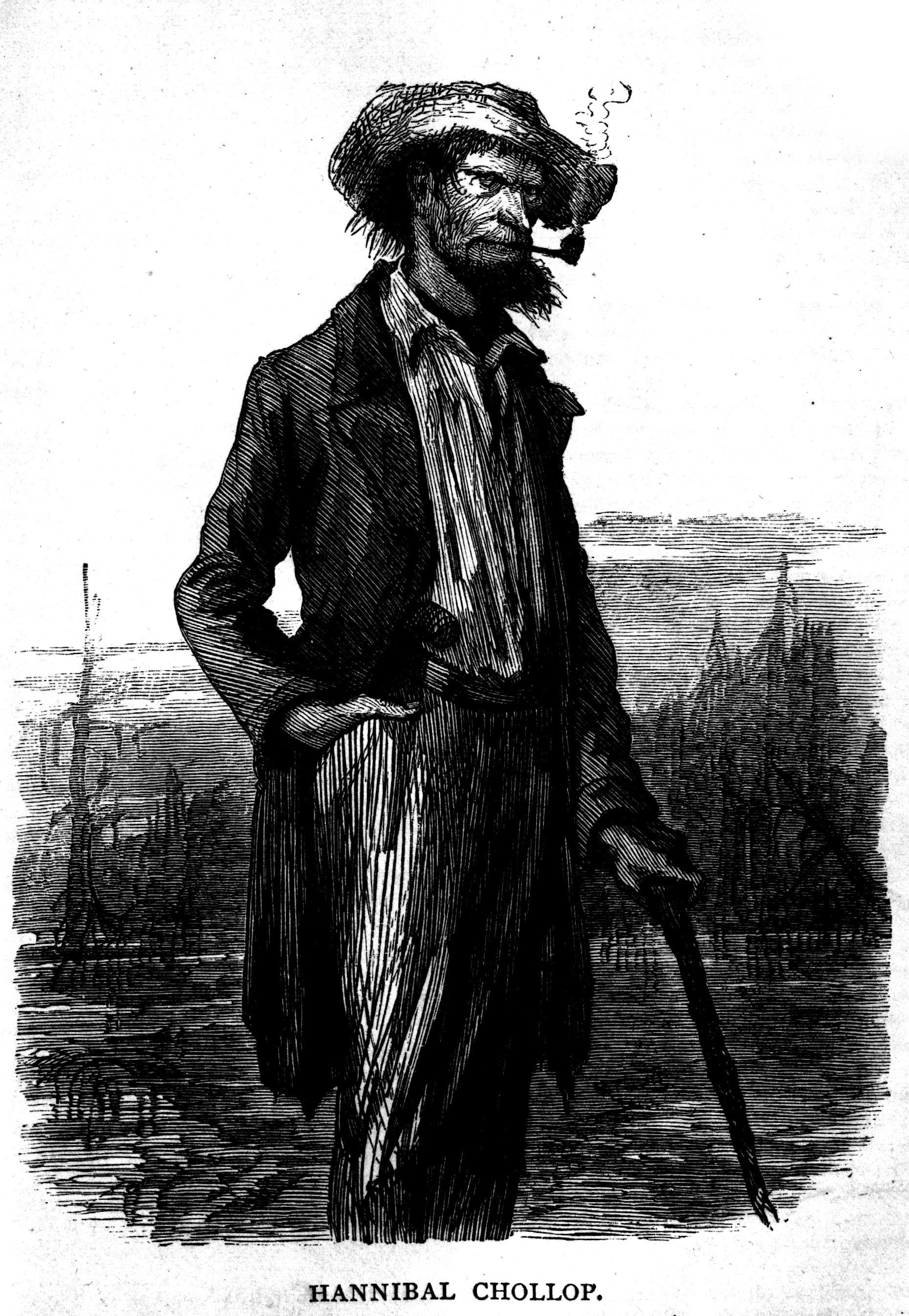 Illustration from 1867 U.S. edition of Martin Chuzzlewit. Page 302. "Hannibal Chollop"